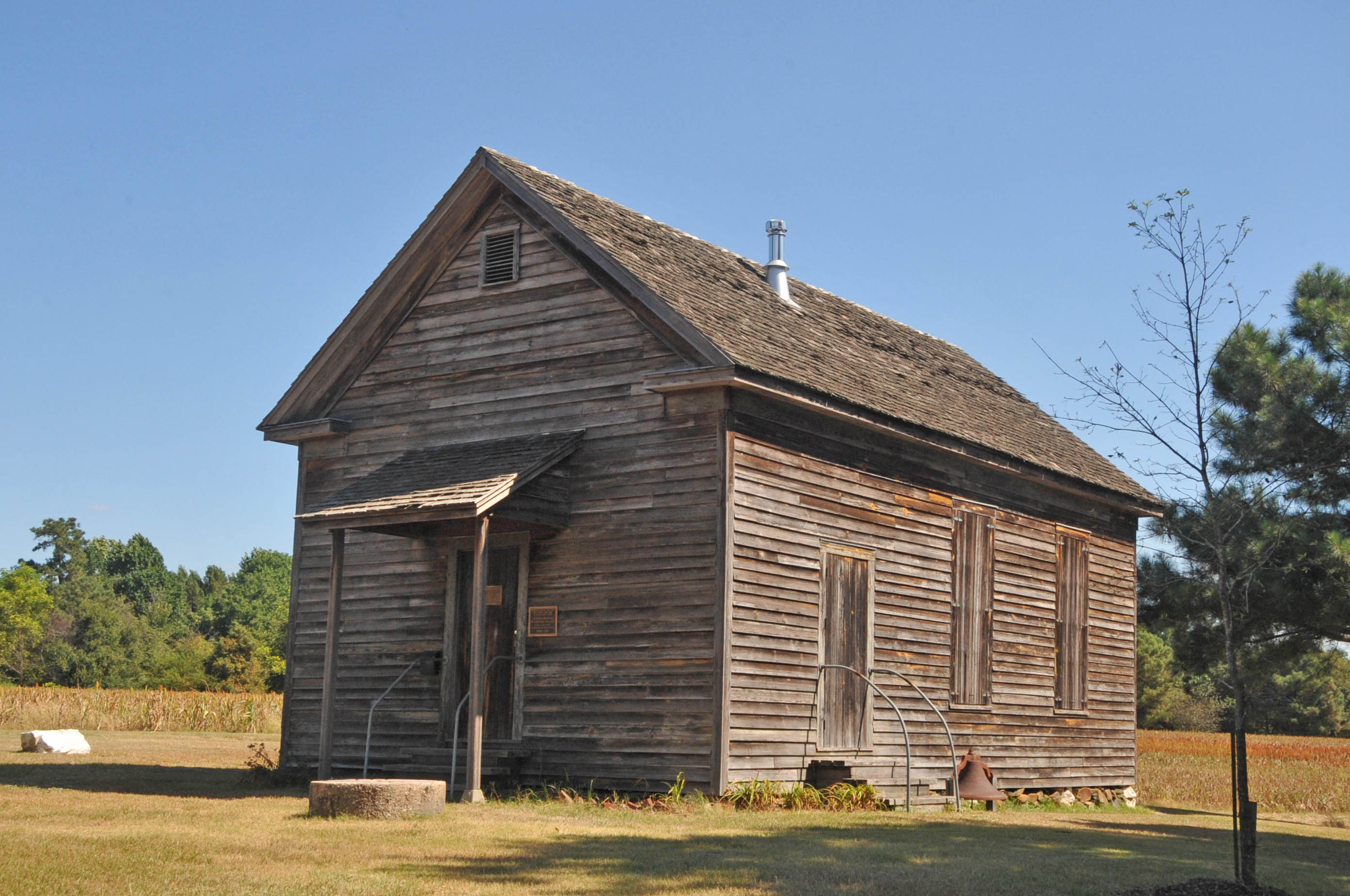 Served as the school in the district for grade one through seven from 1880 to 1922.